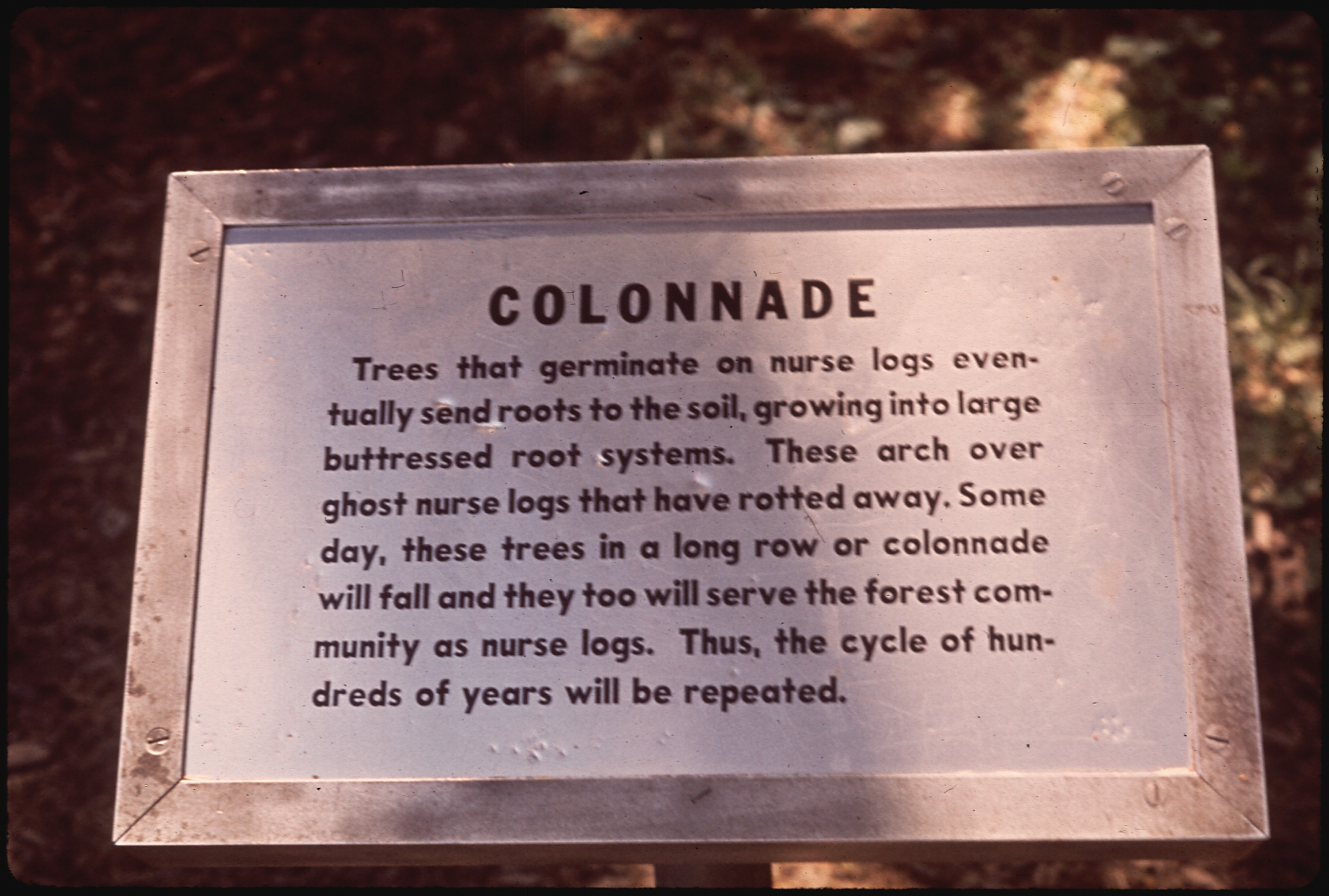 A sign in the Hoh Rain Forest, titled "Colonnade"; it reads as follows: "Trees that germinate on nurse logs eventually send roots to the soil, growing into large buttressed root systems. These arch over ghost nurse logs that have rotted away. Some day, these trees in a long row or colonnade will fall and they too will serve the forest community as nurse logs. Thus the cycle of hundreds of years will be repeated."